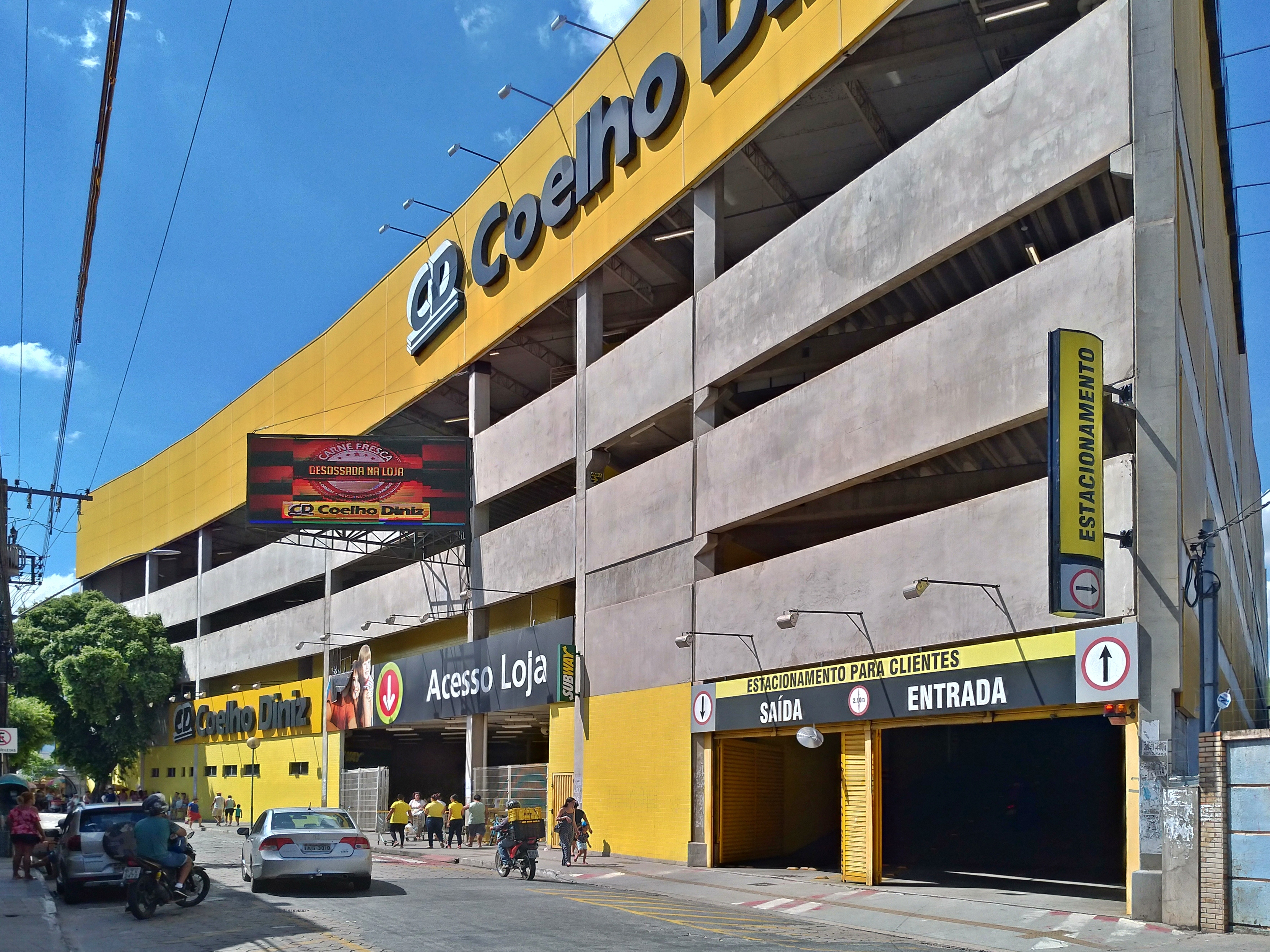 Partial view of the Coelho Diniz supermarket of the downtown of Coronel Fabriciano, Minas Gerais, Brazil.